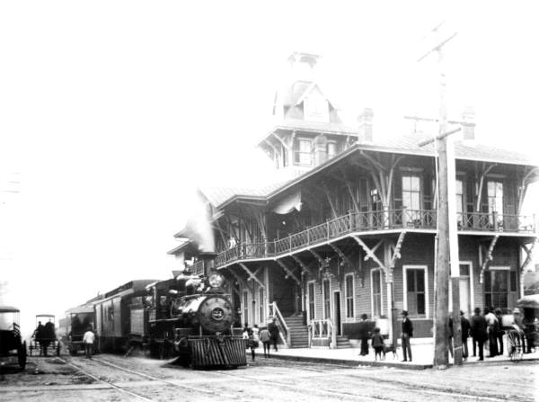 Photograph of Pensacola and Atlantic Railroad passenger station in Pensacola, Florida, corner of Tarragona and Wright streets, built 1882. Source gives "19--" as date of photograph, which must be before 1912 when it was replaced by larger station.